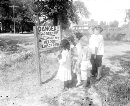 Group portrait of a group of children standing in front of an anti-German sign posted in the Edison Park community area of Chicago, Illinois. One of the children is pointing at the sign, which reads: DANGER!! To Pro-Germans --- Loyal Americans Welcome to Edison Park.